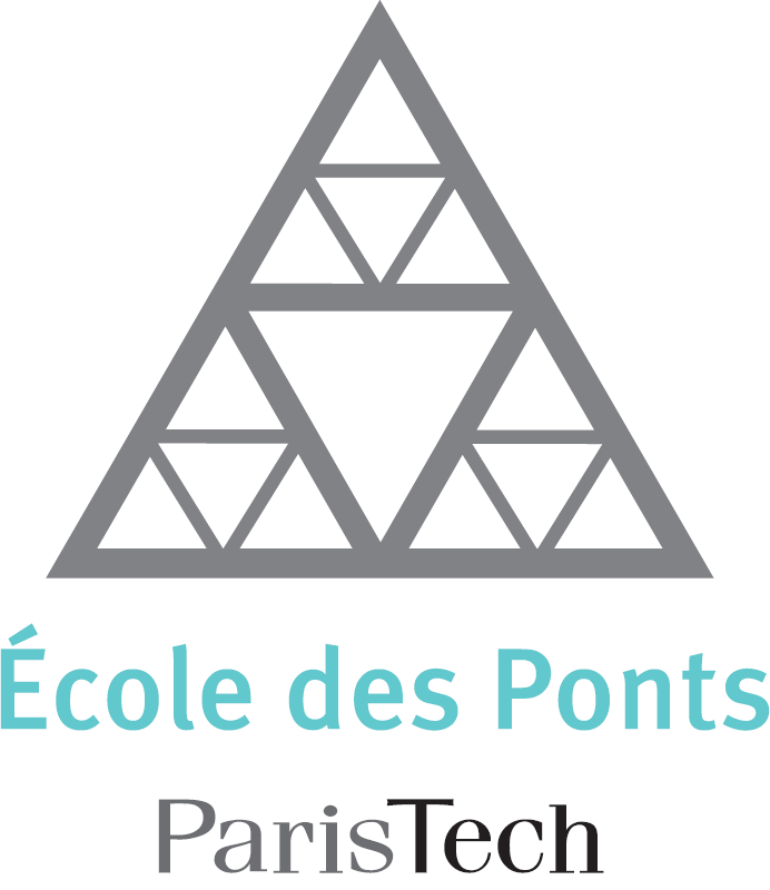 Logo of Ecole des Ponts ParisTech